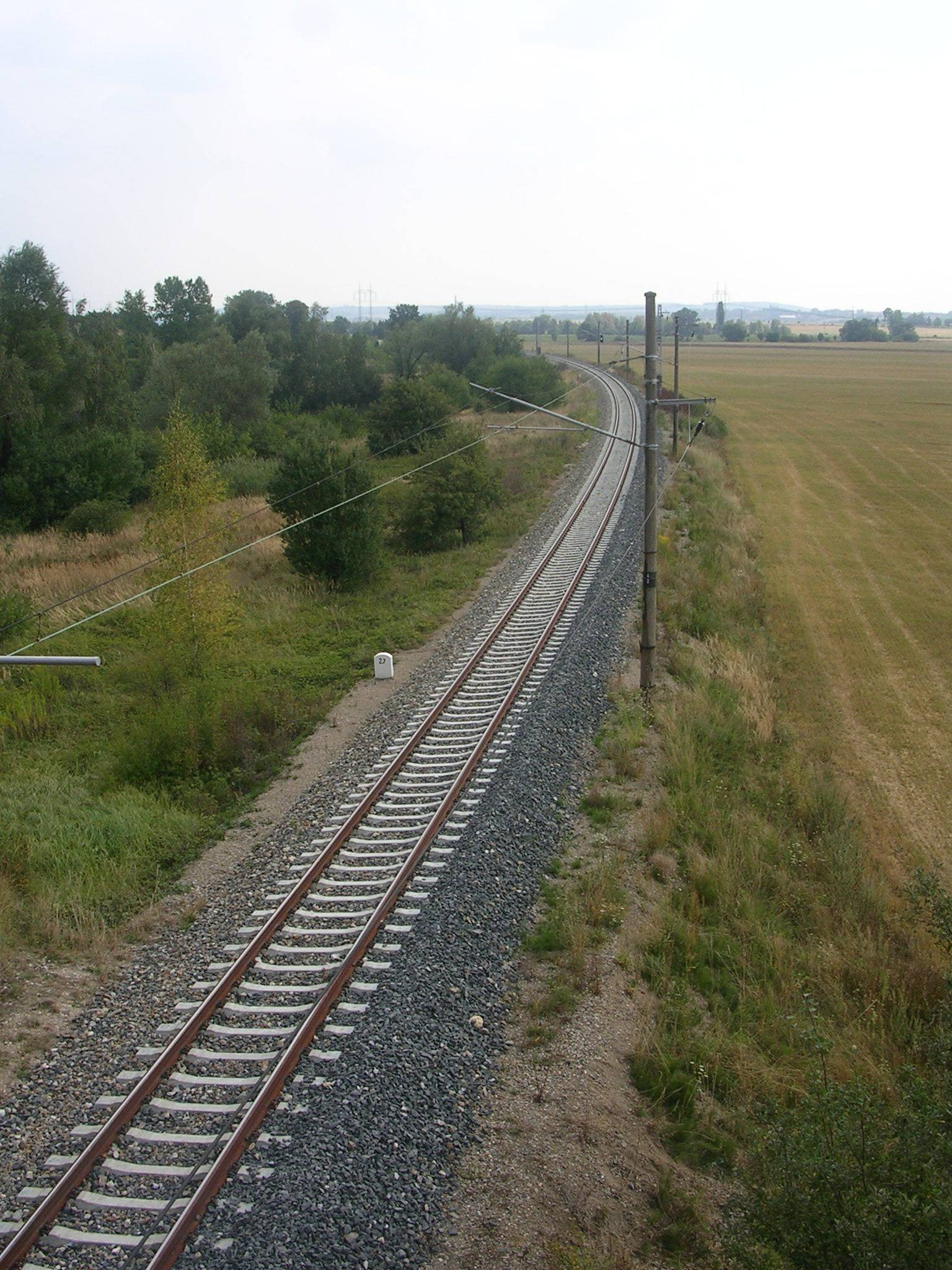 Railway test circuit Velim